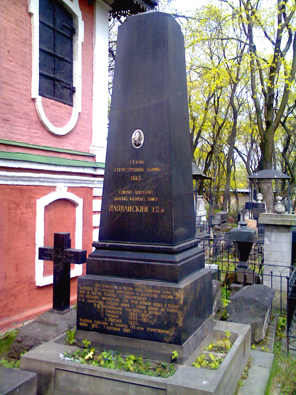 Ilovaysky, Vasily Dimitiyevich - Donskoy monastery in Moscow.